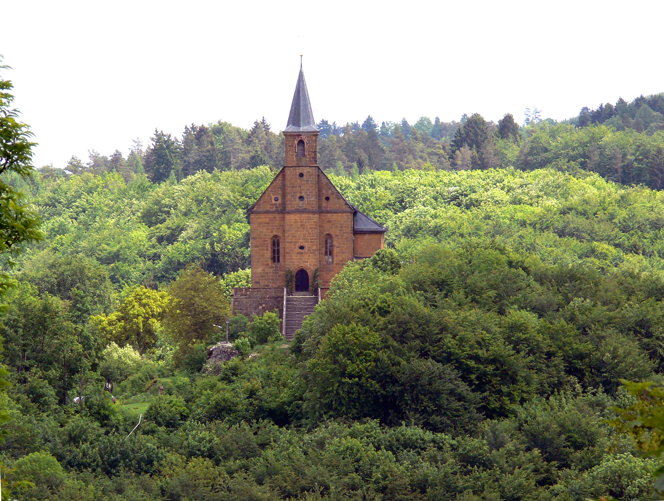 Gügel von Giechburg - sights of Scheßlitz, Germany